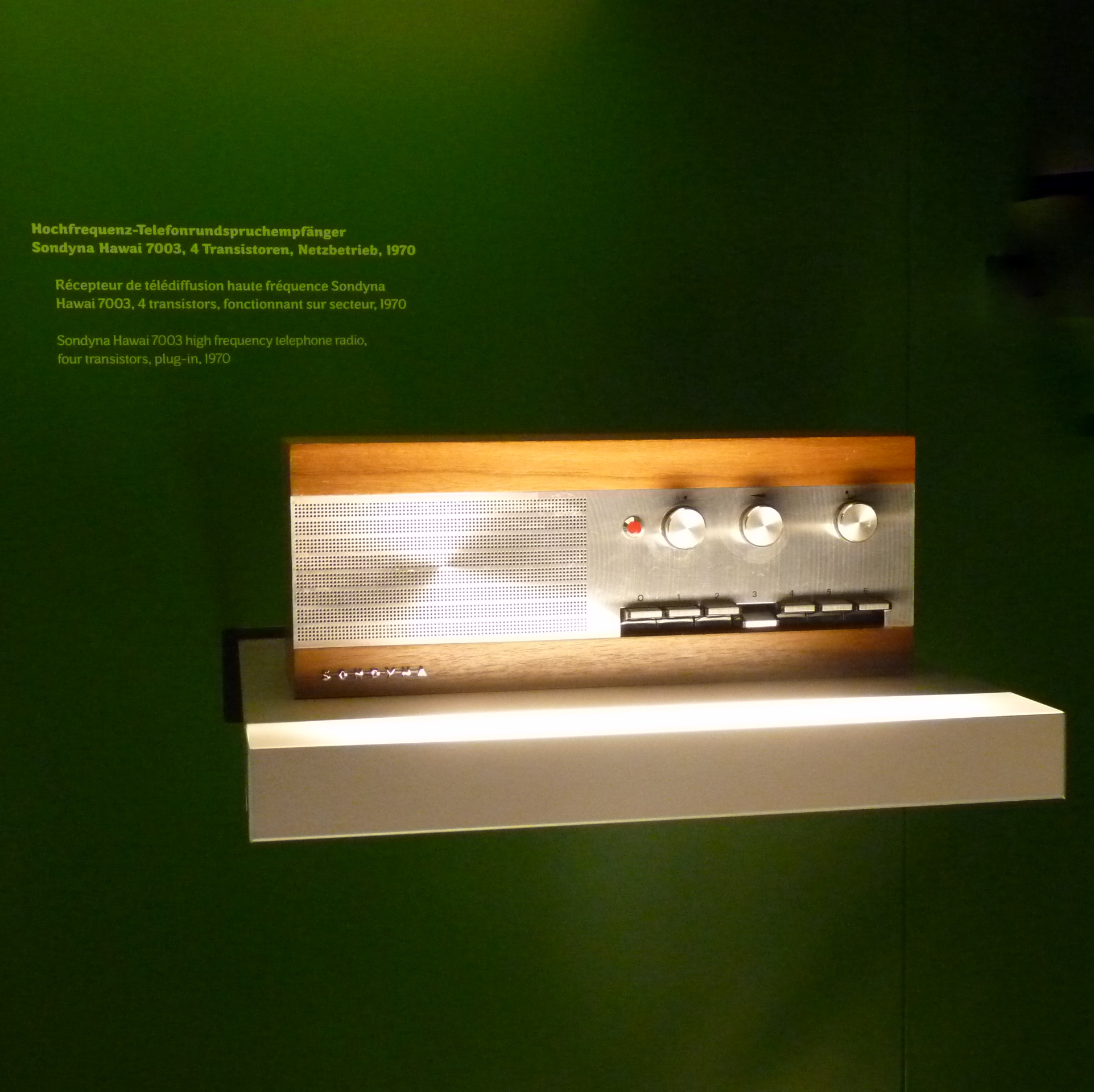 Bern. Museum für Kommunikation: Swiss HF telephone radio receiver Sondyna Hawai 7003, 1970